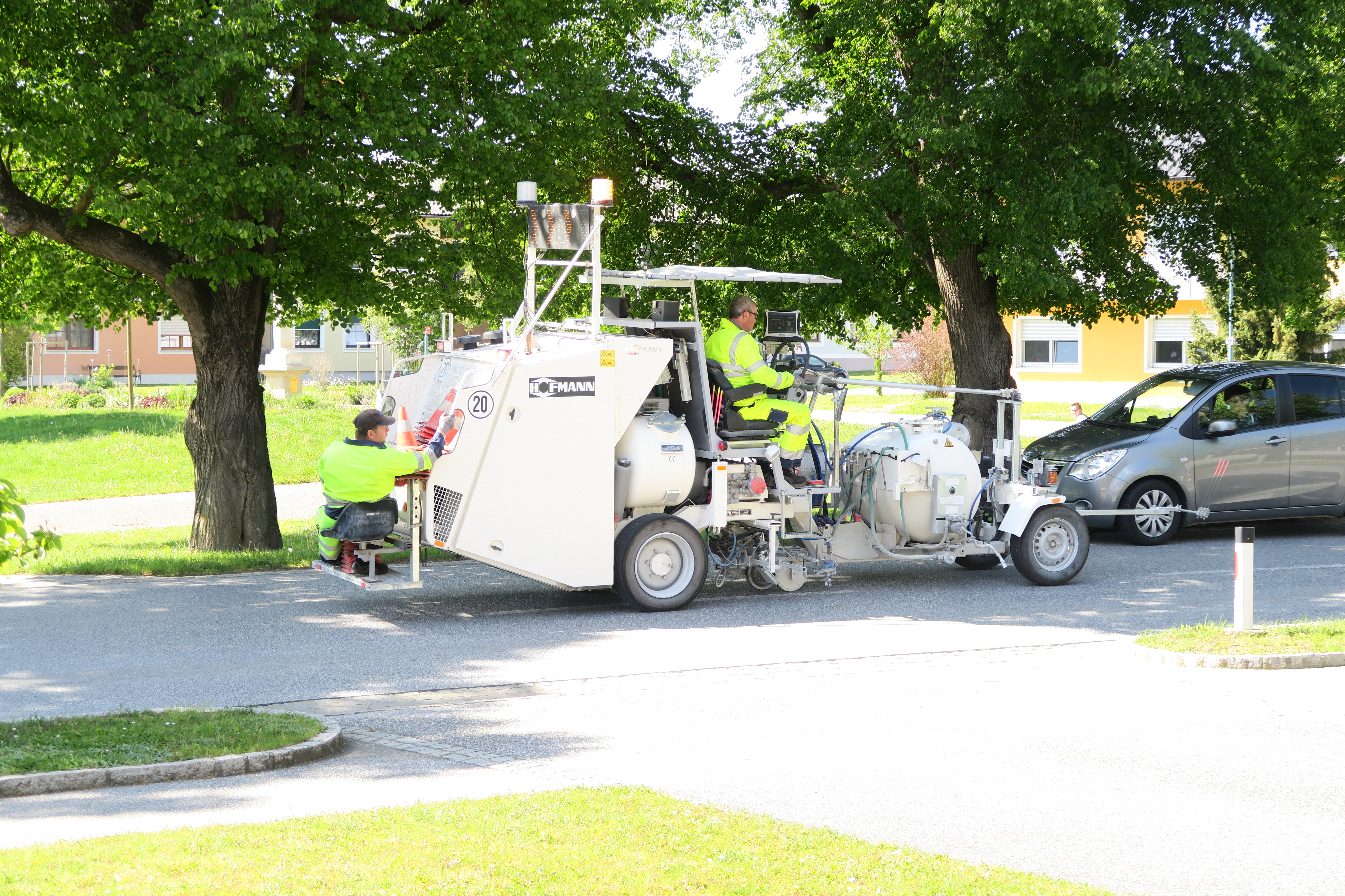 Road marking vehicles